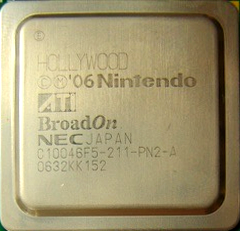 Photo Showing Nintendo Wii GPU